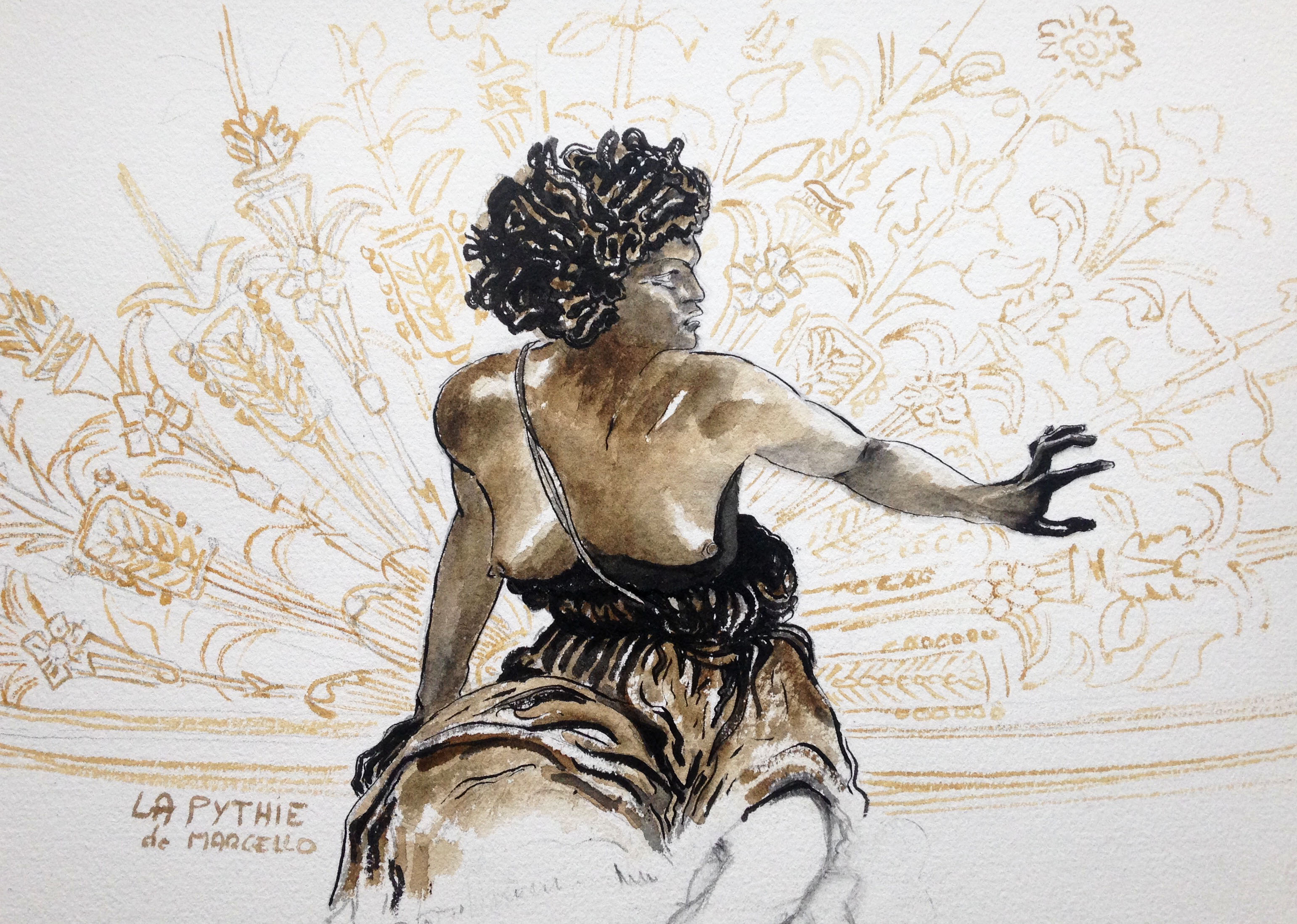 Ilustration La Pythie de Marcello issue de l'ouvrage Opéra Mon Amour. 2017